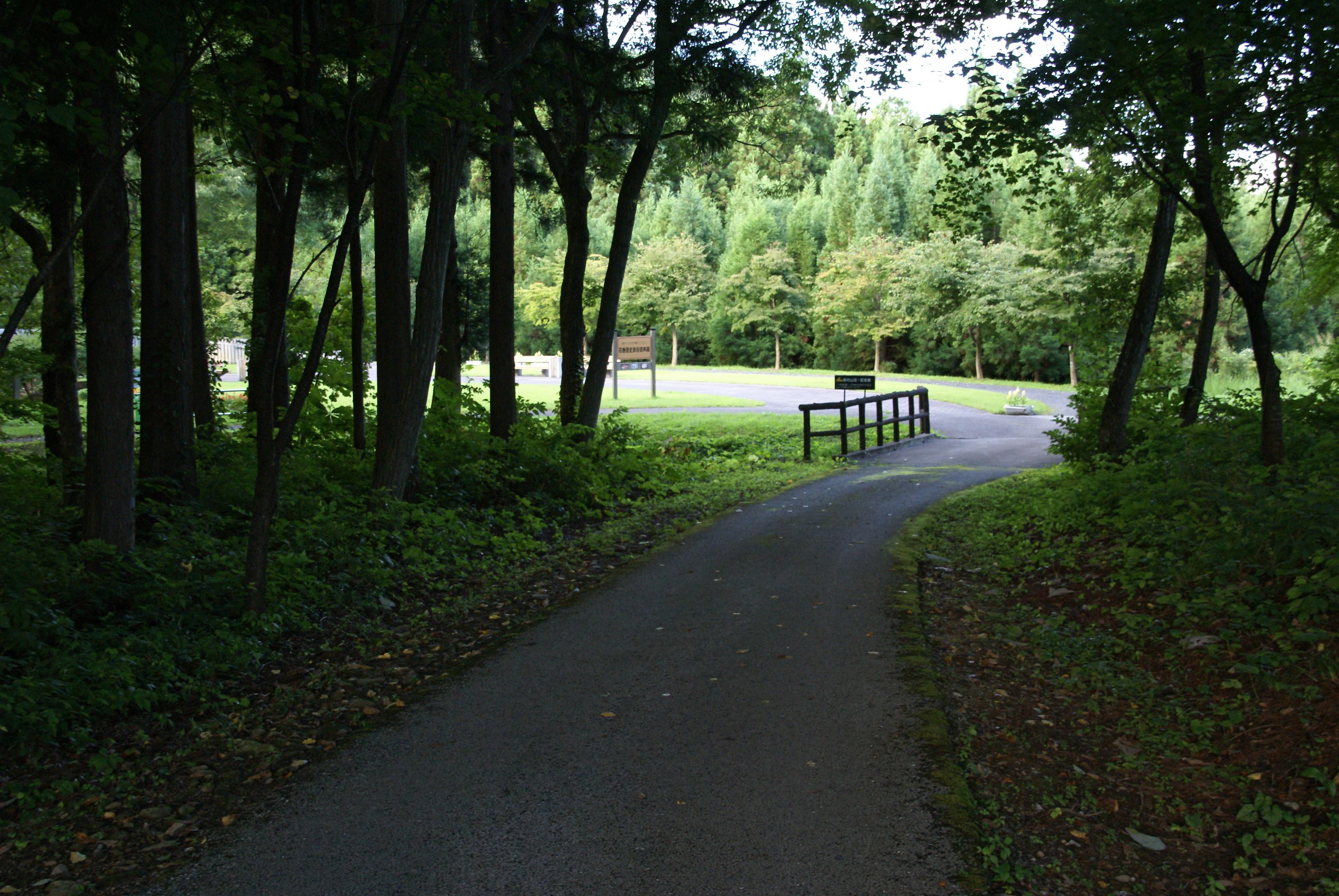 Hanamaki City Museum of History and Folklore in Hanamaki, Iwate prefecture, Japan